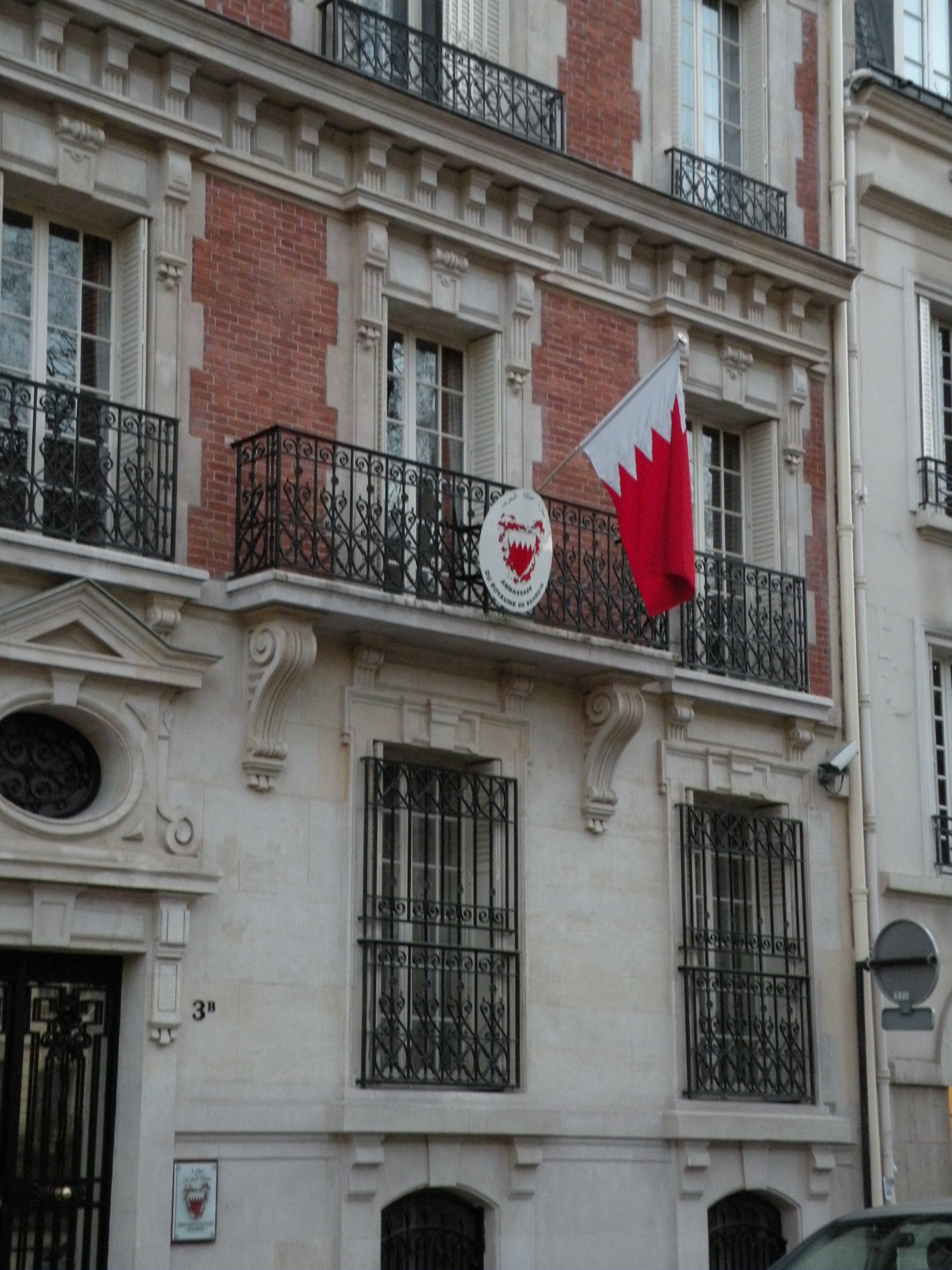 Bahraini embassy in France, Paris